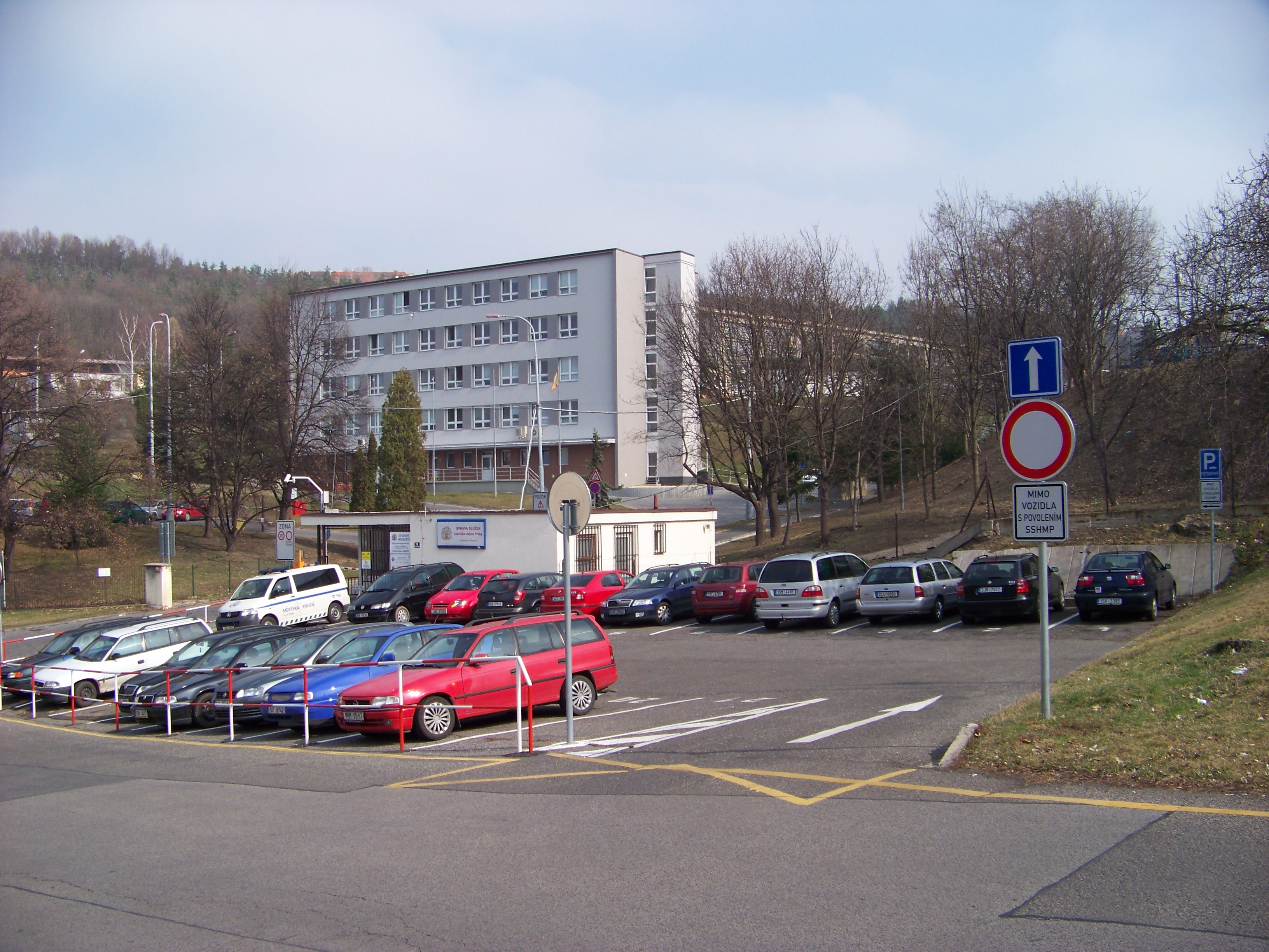 Prague-Libeň, the Czech Republic. Kundratka street.